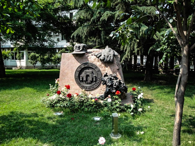 BHSF Memorial